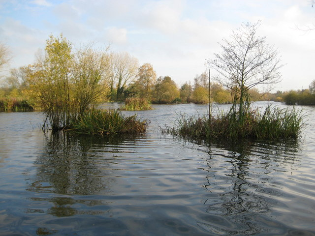 Rickmansworth: Stocker's Lake Stocker's Lake is a flooded former gravel pit where extraction took place between the 1920s and 1940s. The old Wembley Stadium is one example of a site where the gravel was used in the early 1920s. Today it is a nature reserve managed by the Herts and Middlesex Wildlife Trust.